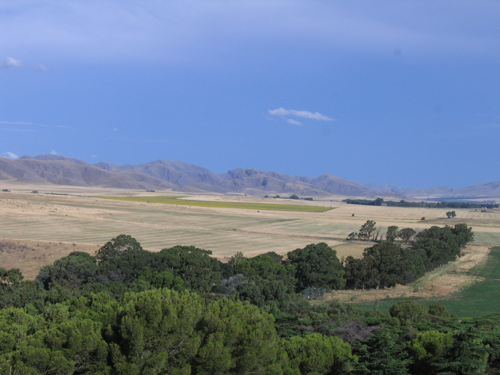 Landscape around Pigüé.